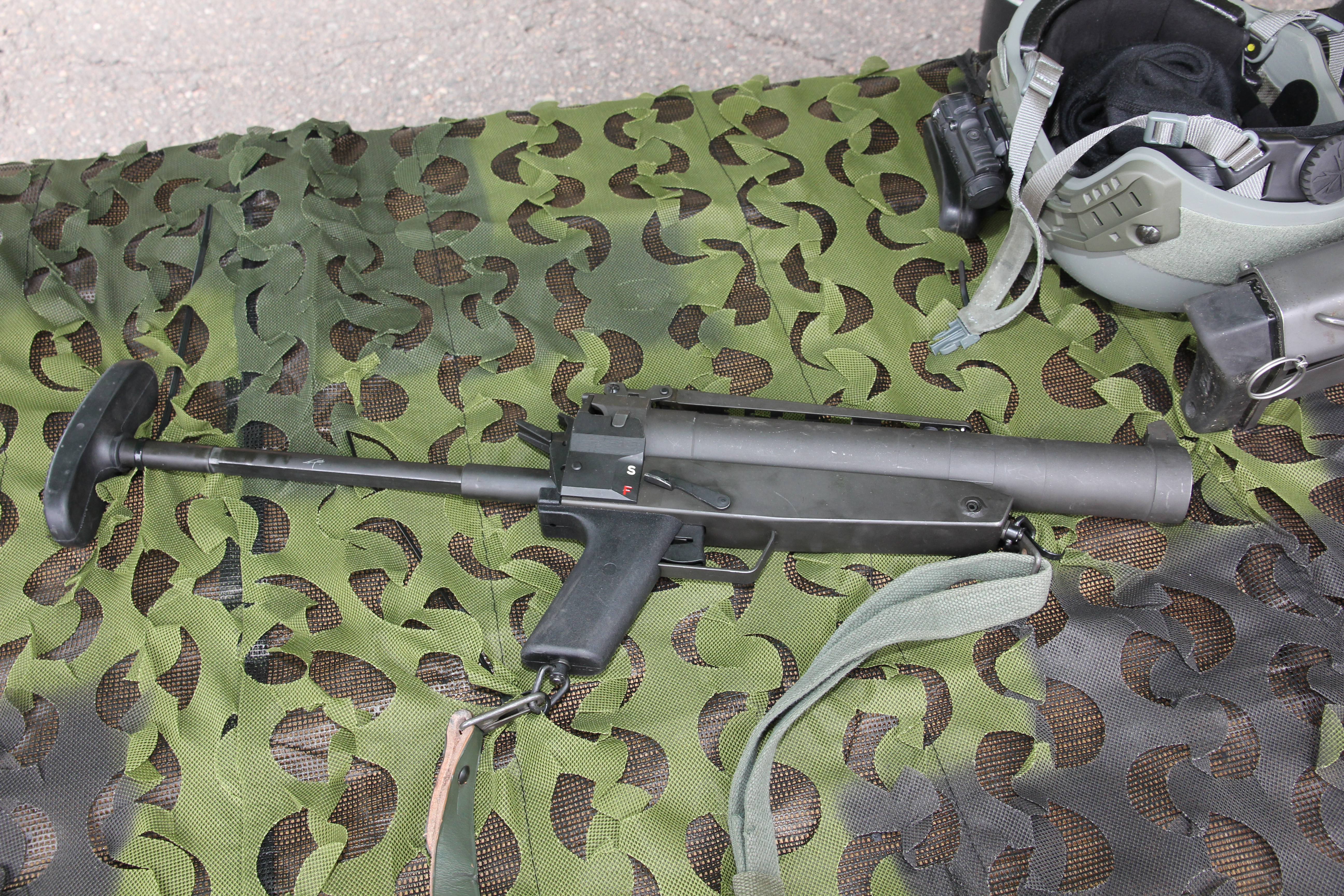 HK69A1 40 mm grenade launcher on display during Finnish Defence Forces 2014 Flag day in Lappeenranta Rakuunanmäki.